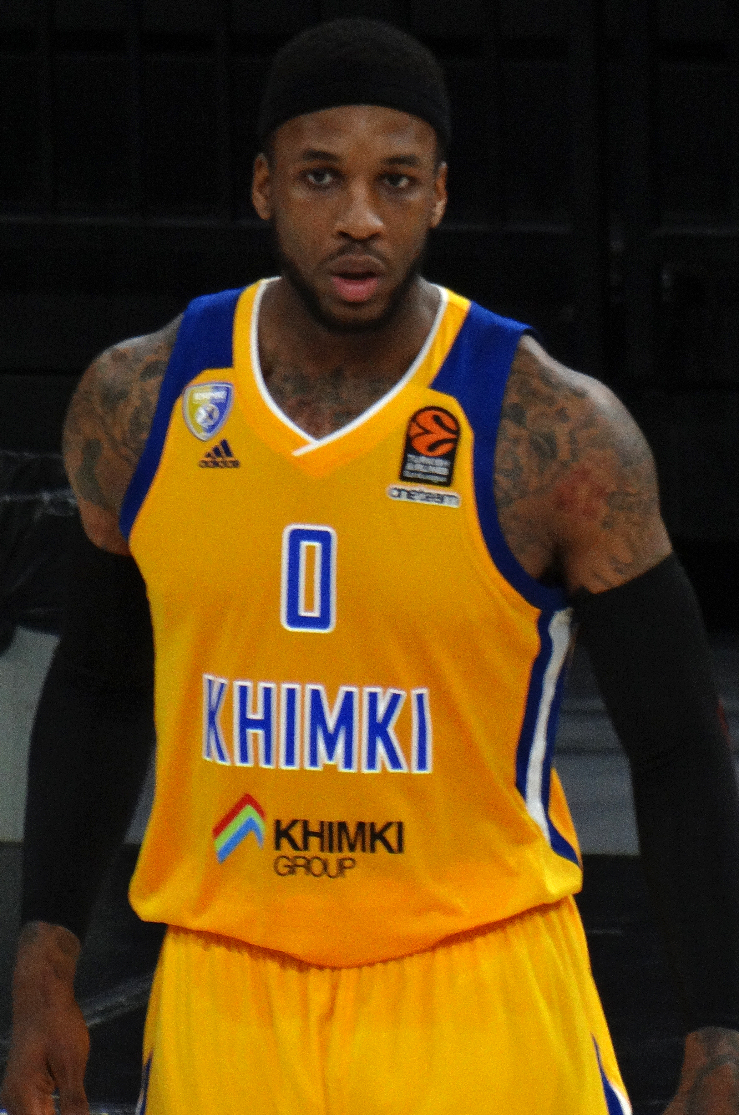 Thomas Robinson (basketball) 0 BC Khimki EuroLeague 20180321